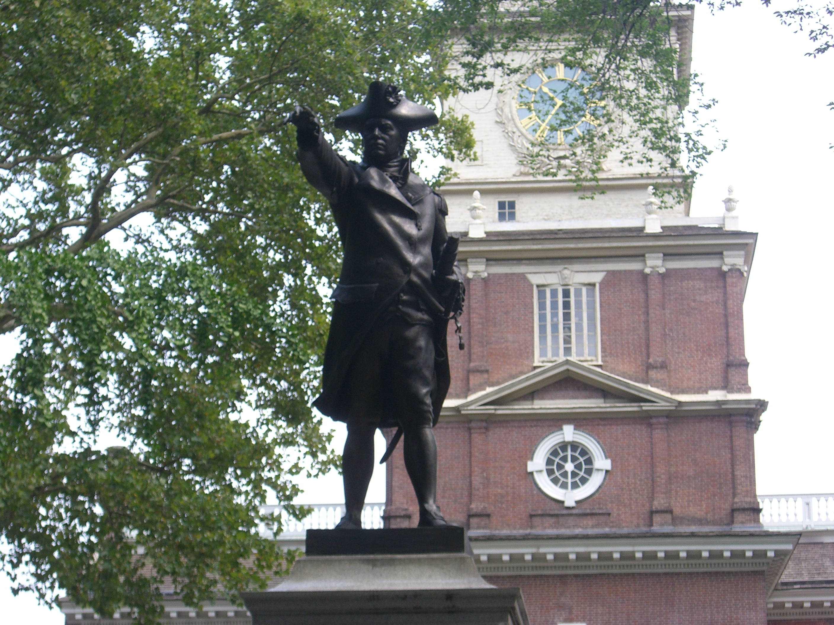 Statue of John Barry (1745-1803, naval officer) at Independence Square, Philadelphia, PA